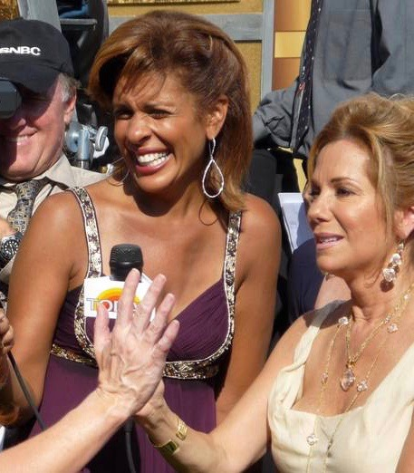 Free free to use this photo. Just link to the photo page or Greg In Hollywood